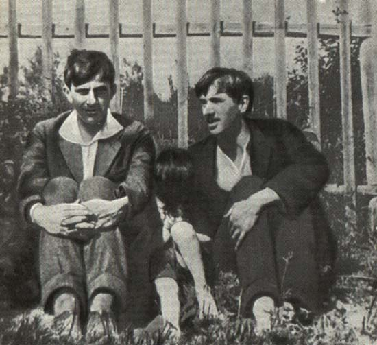 Vladimir Mayakovsky and Kornei Chukovsky with son Boris (in Kuokkala, 1915)